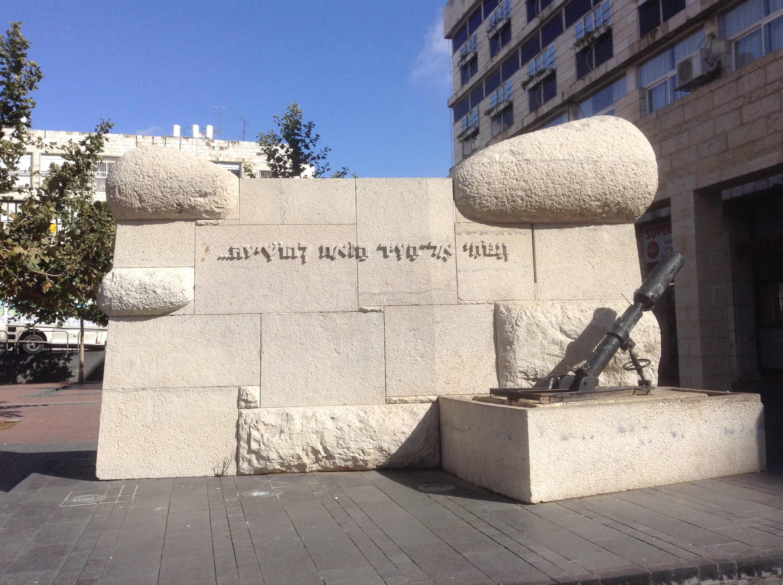 Davidka memorial in Jerusalem